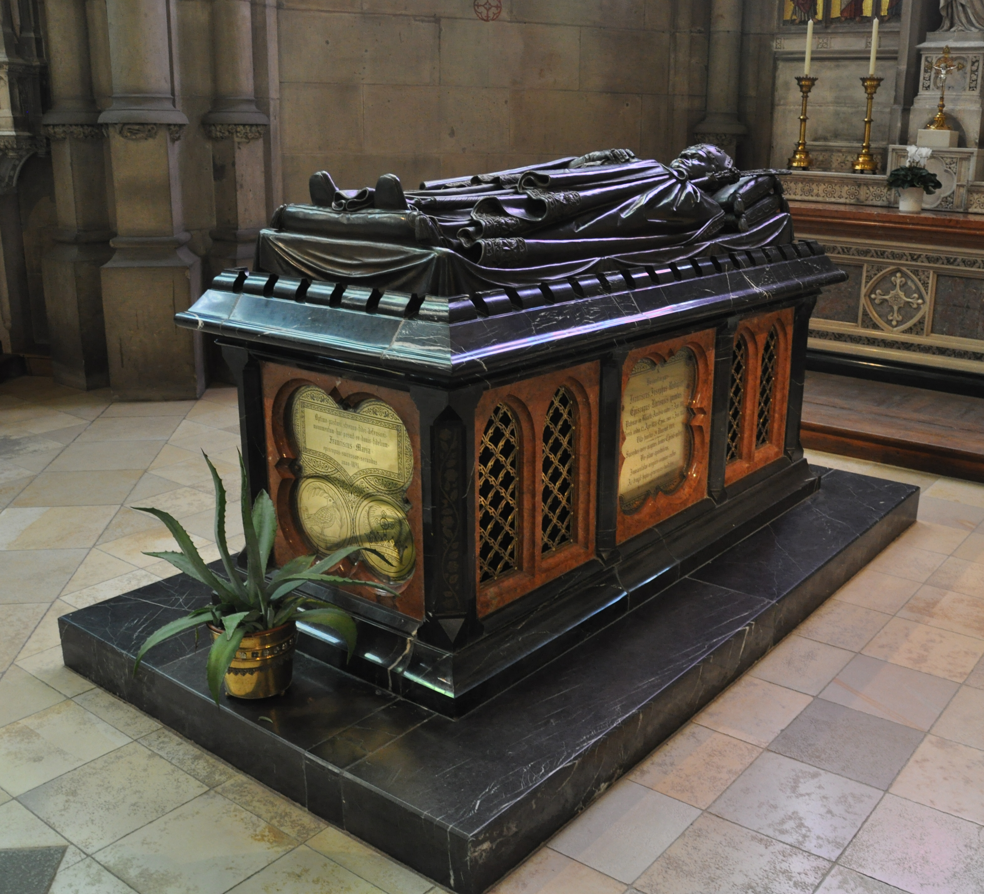 Austria, Linz, New Cathedral